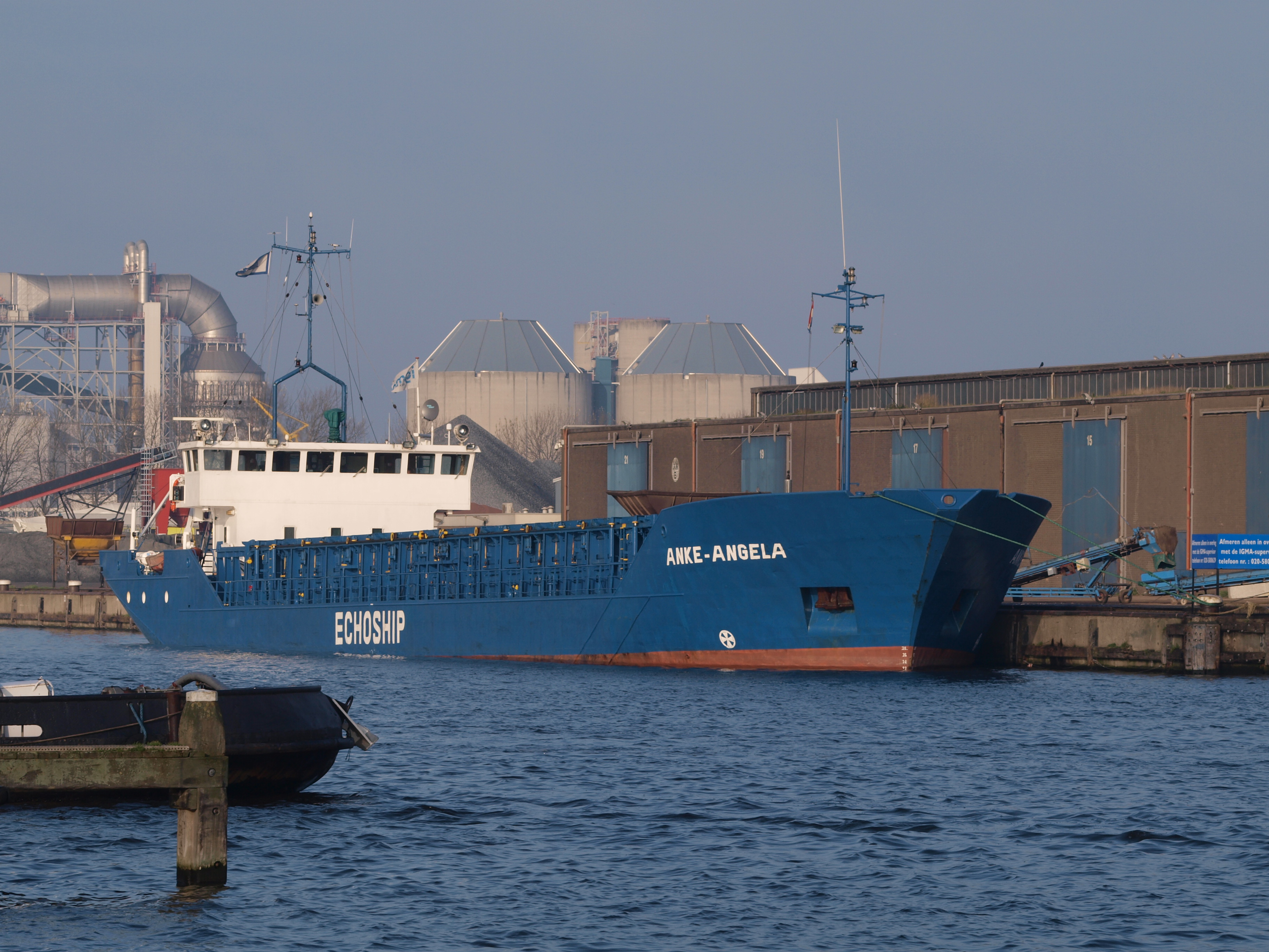 Photographed at the Port of Amsterdam, Amsterdam, The Netherlands.